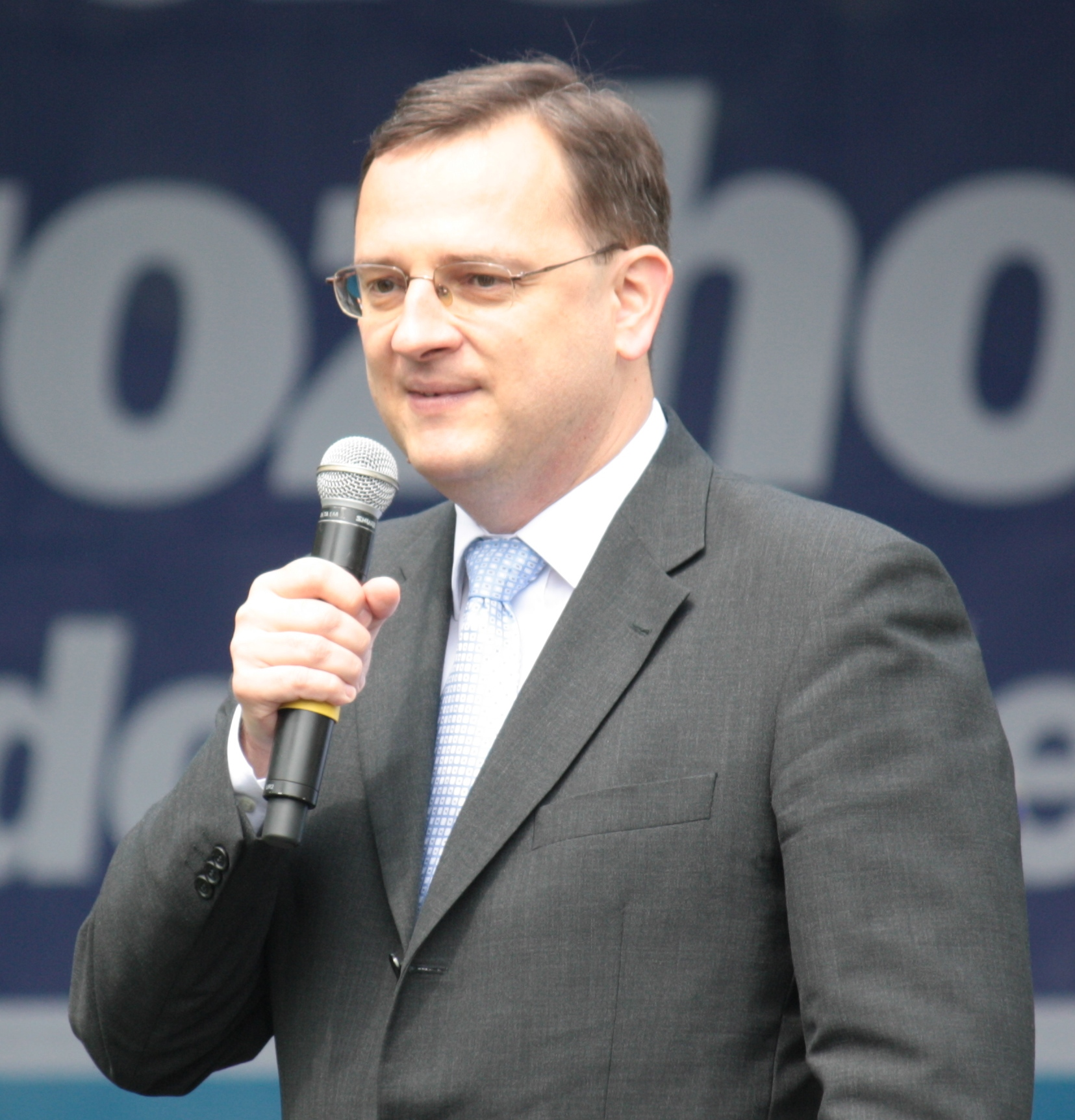 Party chairman Petr Nečas during ODS election campaign meeting on Prague island Kampa